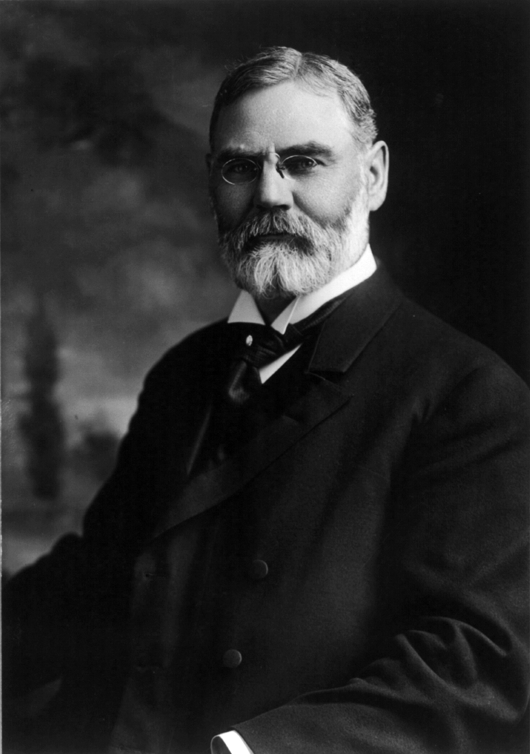 James Robert Mann, U.S. Representative from Illinois